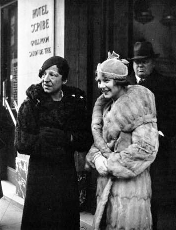 French tennis player Suzanne Lenglen with Norwegian figure skater and film star Sonja Henie in Paris in 1932.